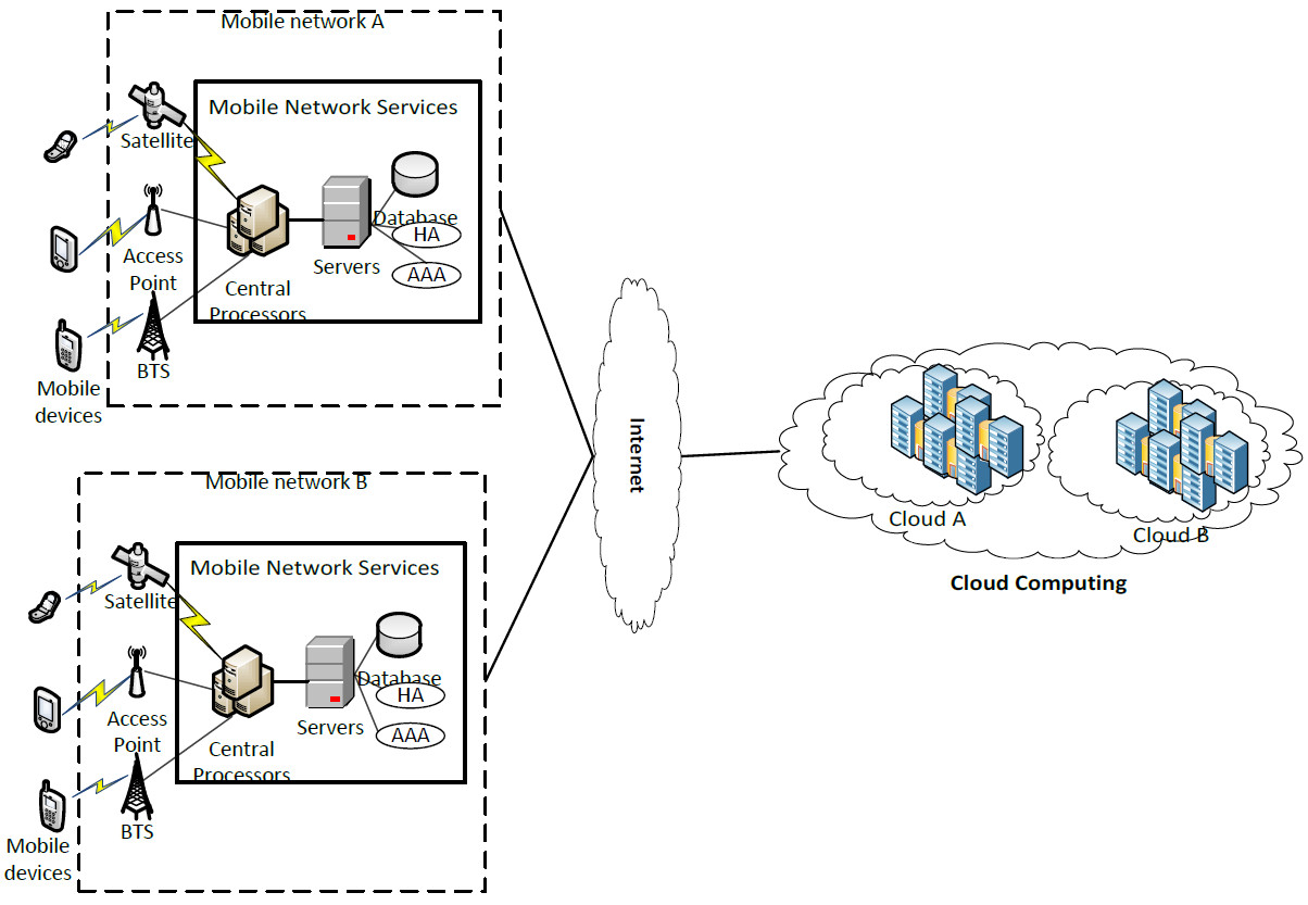 Describe general architecture of Mobile Cloud Computing. BTS: Base Transceiver Station AAA: Network Authentication, Authorization, and Accounting HA: Home Agent